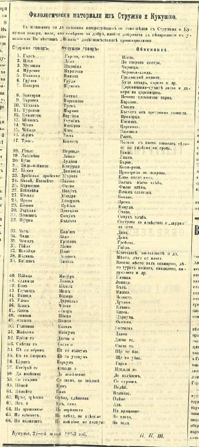 Novini with an article from Porfiriy Shaynov.